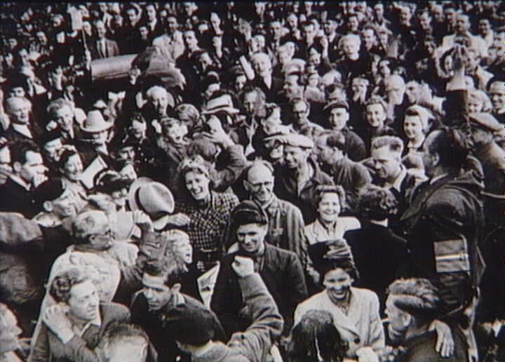 More images from The Museum of Danish Resistance